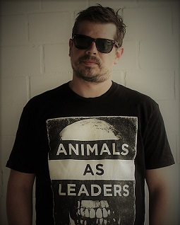 Wasscass